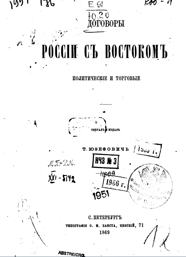 Treaties of Russia and the East